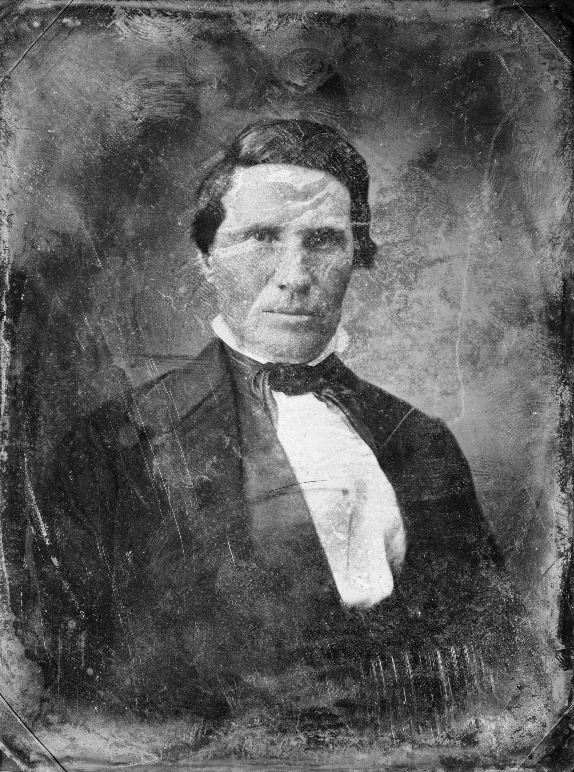 Alexander William Doniphan, head-and-shoulders portrait, facing front. Colonel, U.S. Army.